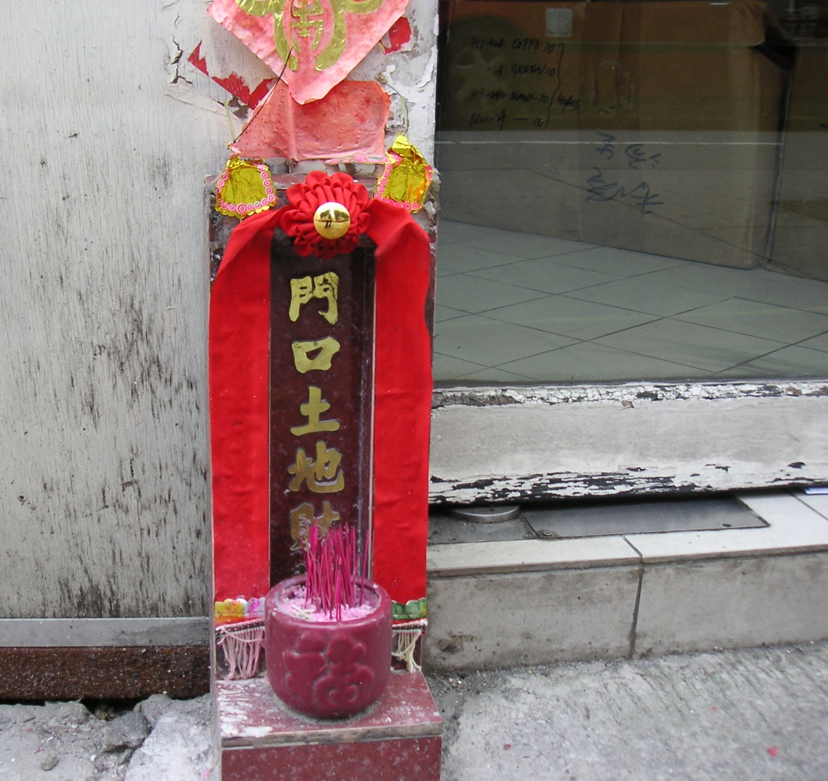 A Spirit tablet or Spirit seat in Hong Kong